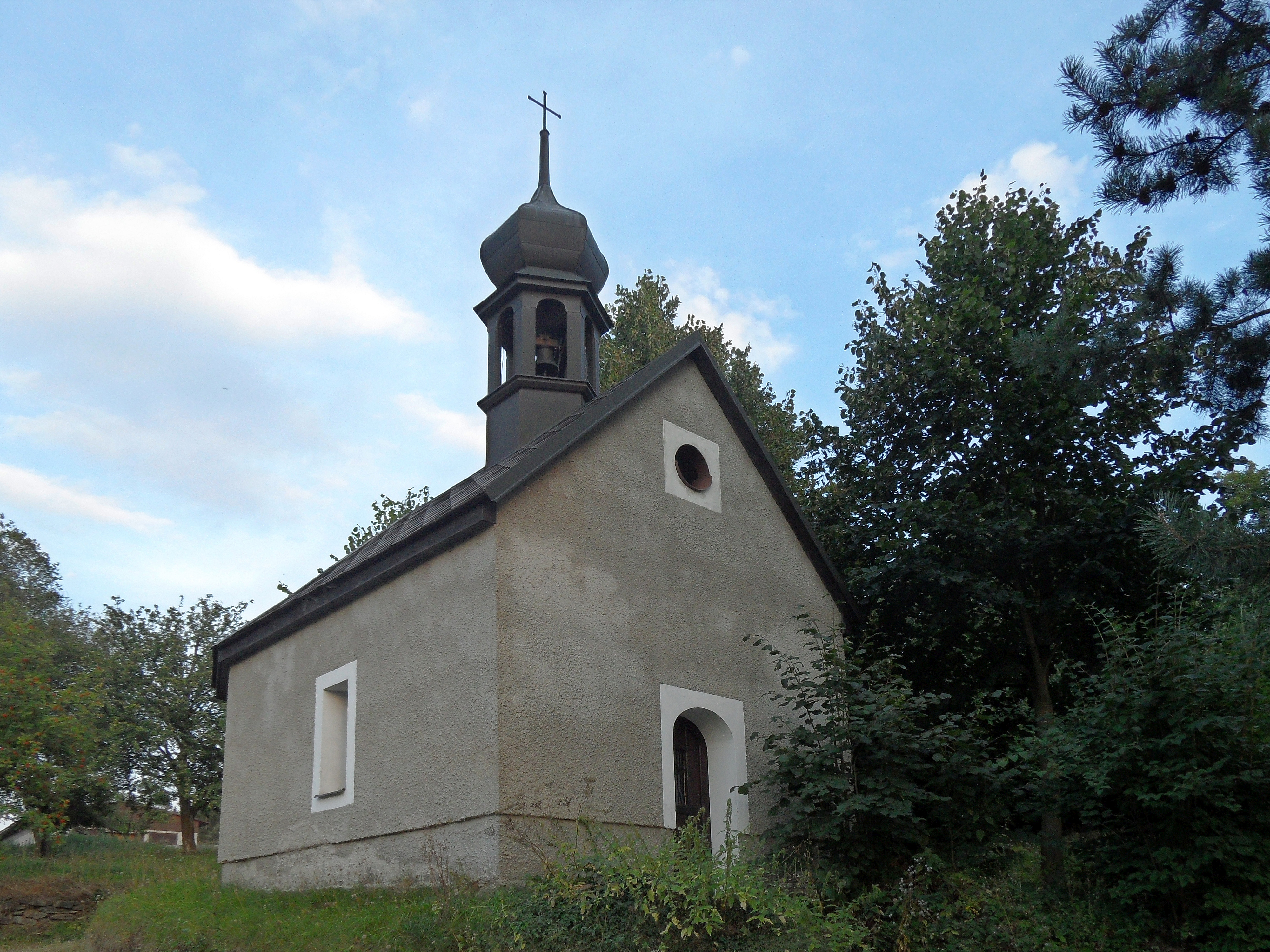 Osikov: Chapel (View from West). Šumperk District, the Czech Republic